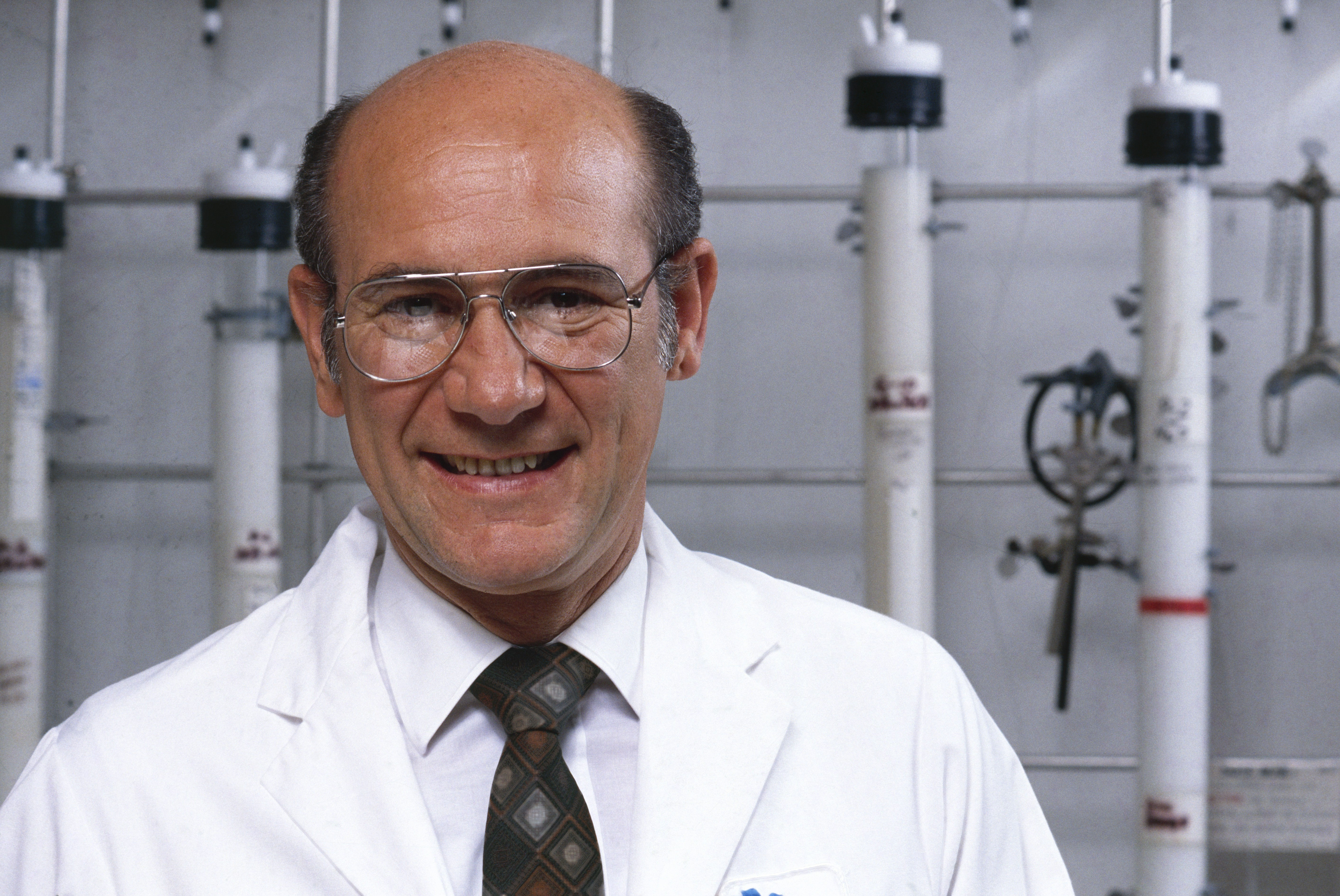 Portrait of Dr Pedro Cuatrecasas. Archives & Manuscripts Keywords: Wellcome Foundation